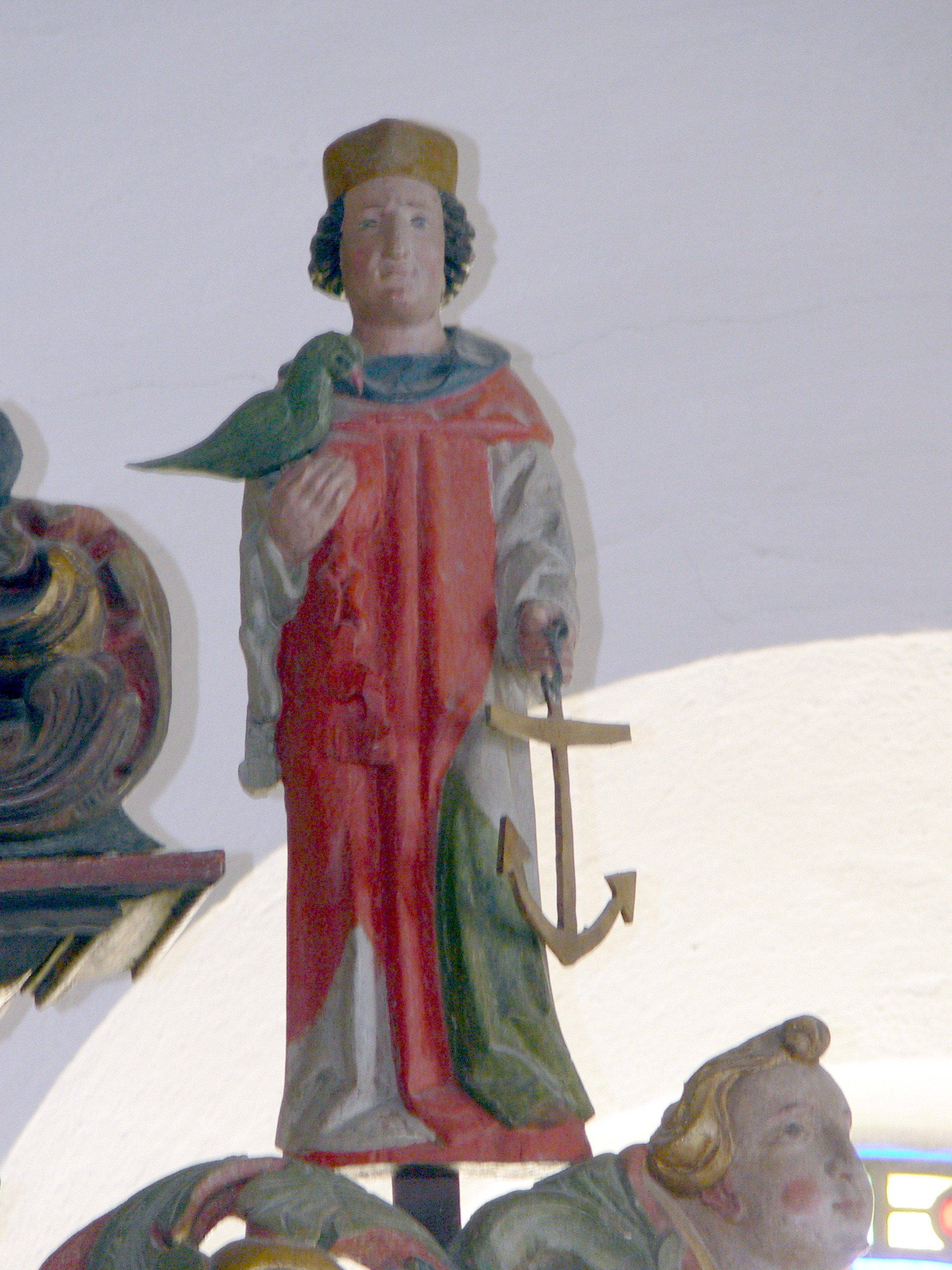 Saint Clement church on Rømø. Statue of Saint Clemens (15th century) on the high altar